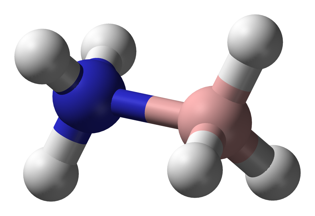 Ball-and-stick model of the ammonia-borane molecule, NH3BH3. X-ray crystallographic data from J. Am. Chem. Soc. (1999) 121, 6337–6343. Model constructed in CrystalMaker 8.1. Image generated in Accelrys DS Visualizer.